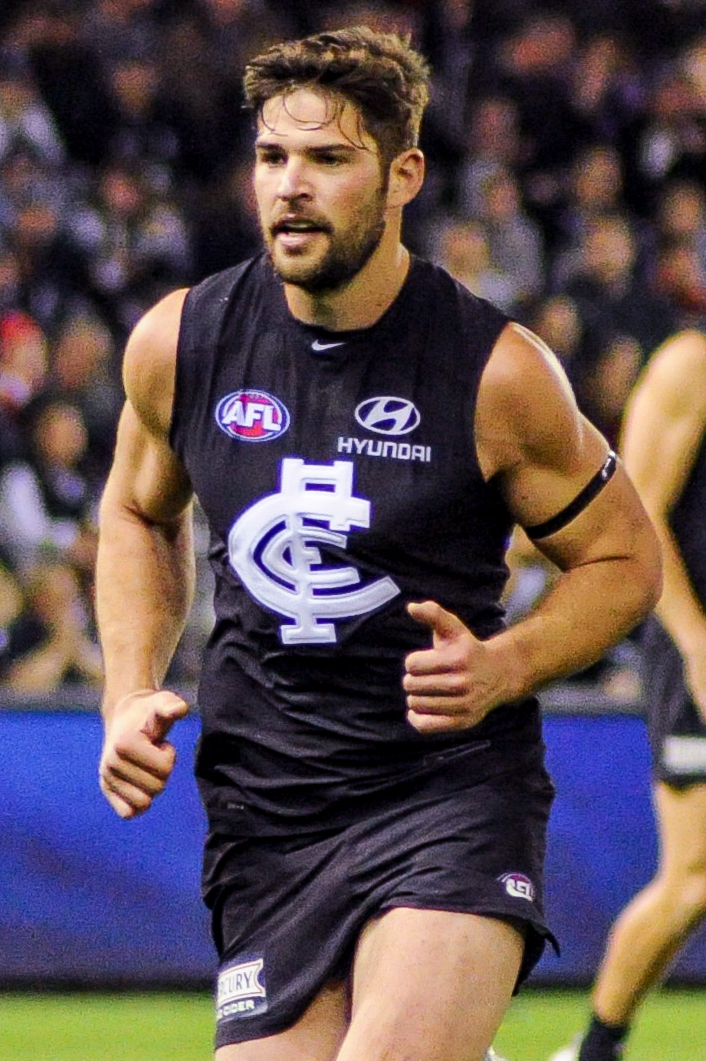 Levi Casboult during the AFL round twelve match between Carlton and Greater Western Sydney on 11 June 2017 at Etihad Stadium in Melbourne, Victoria.